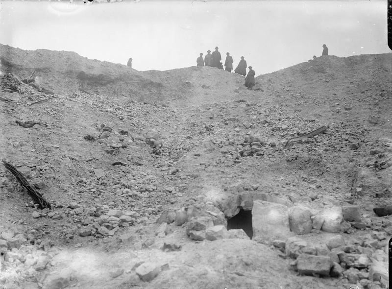 IWM caption : Mr. Massey, Sir Joseph Ward and party on the lip of the mine crater at La Boisselle.